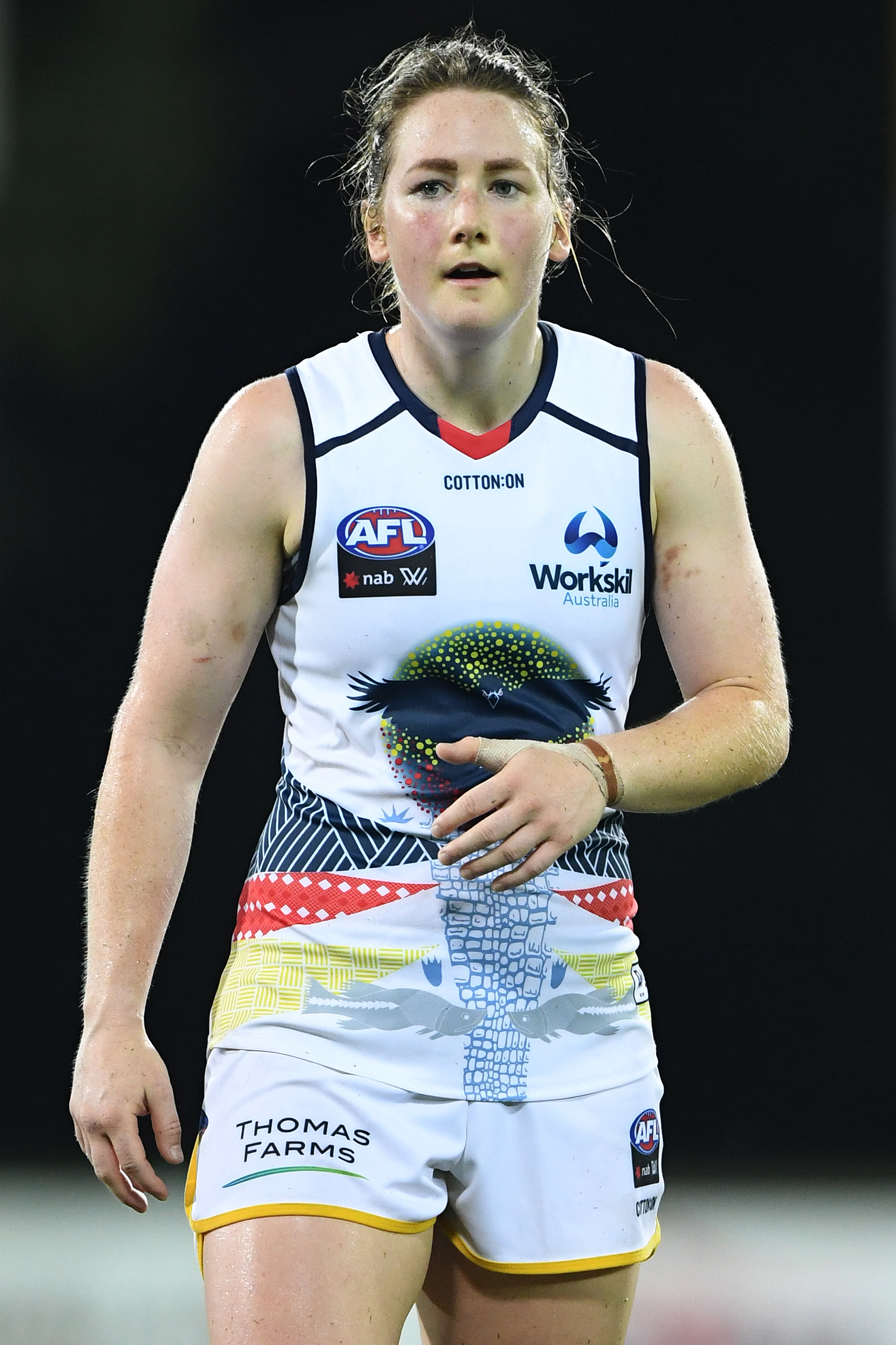 Ailish Considine of Adelaide during the 2019 AFL Women's practice match between the Adelaide Football Club and Fremantle Football Club at TIO Stadium on 19 January 2019 in Darwin Australia.